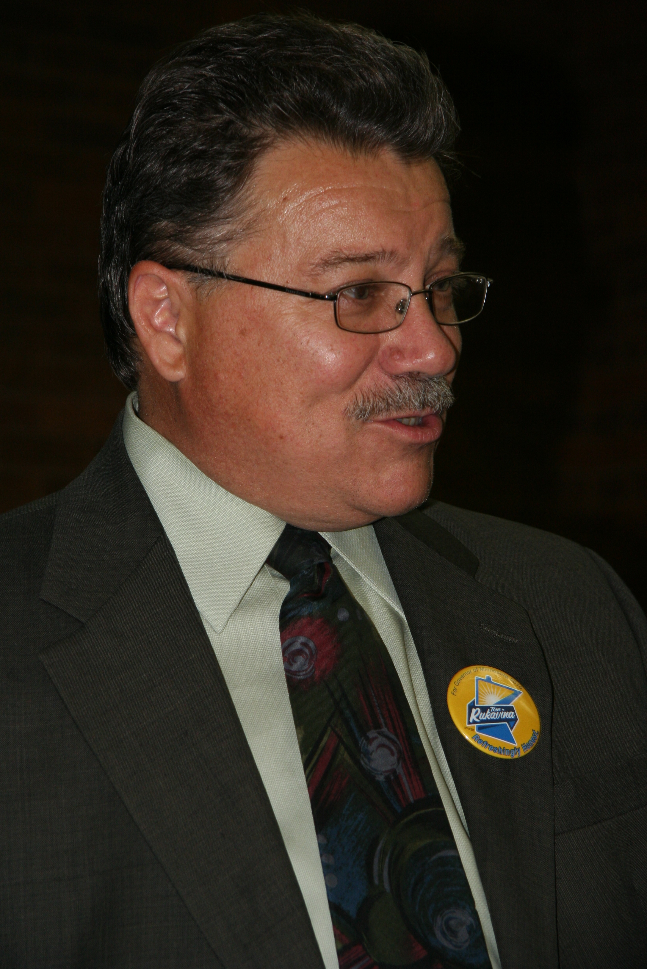 Tom Rukavina in Rochester, Minnesota